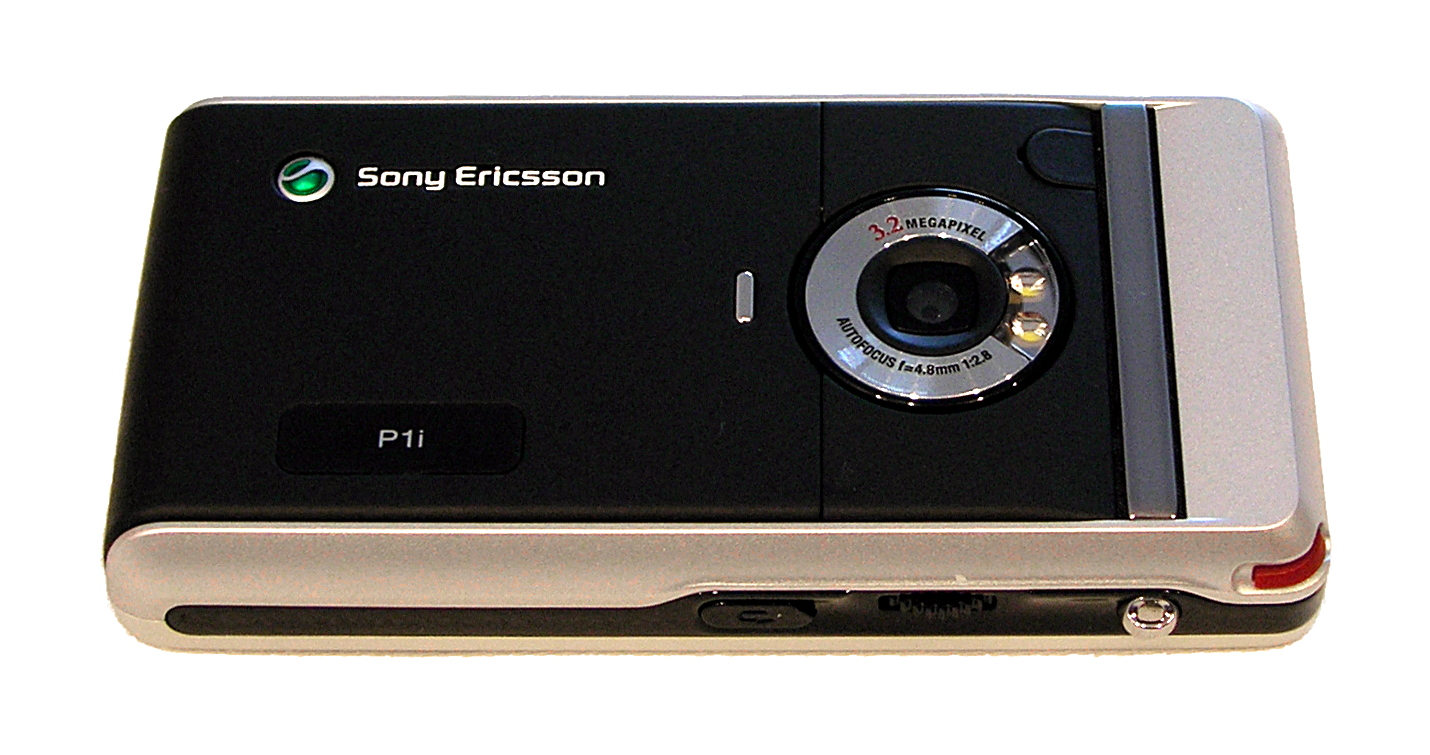 Sony Ericsson P1i